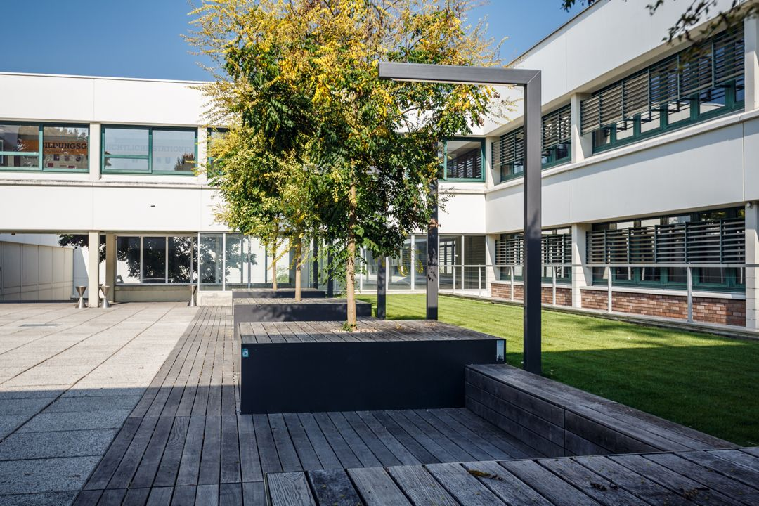 Alpen-Adria-Universität Klagenfurt: Courtyard between the Central Wing and the North Wing